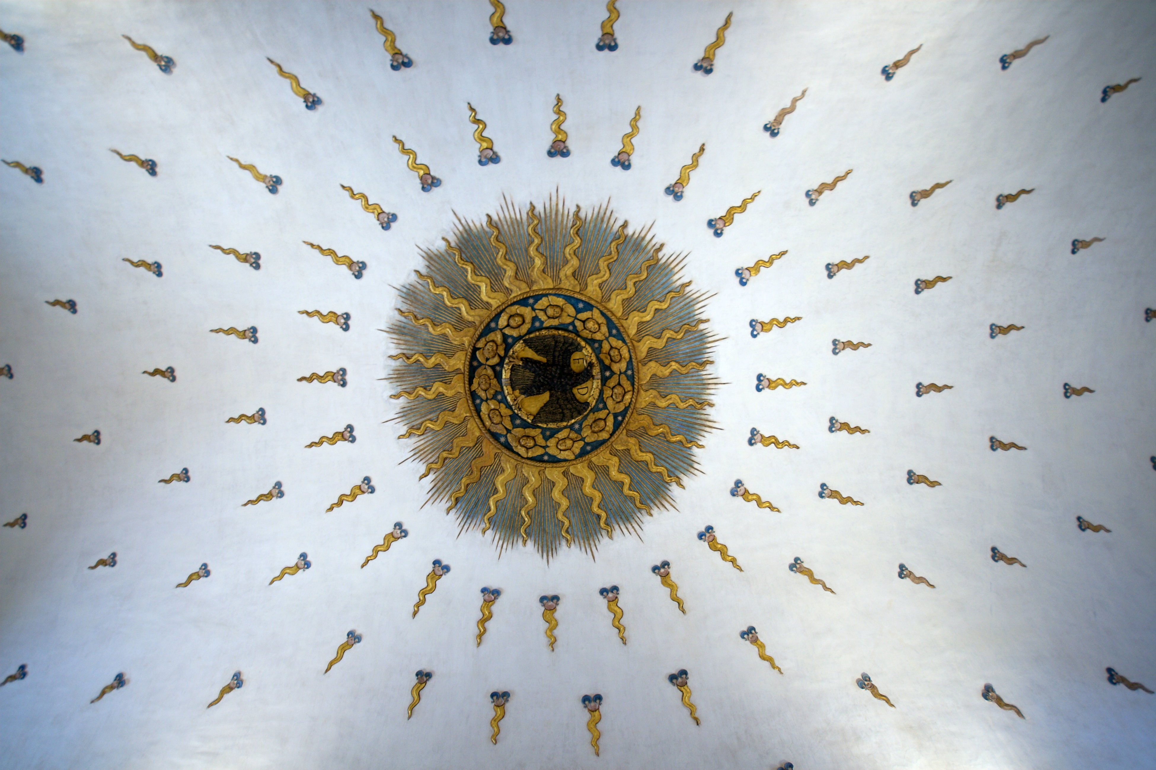 Ceiling in the Biblioteca (library) — Palazzo Ducale (Urbino). EOS 400D + Sigma 10-20 @ 10mm 1/15s f/4 200ISO Mano libera Guardate un po' qua per infomazioni sul personaggio